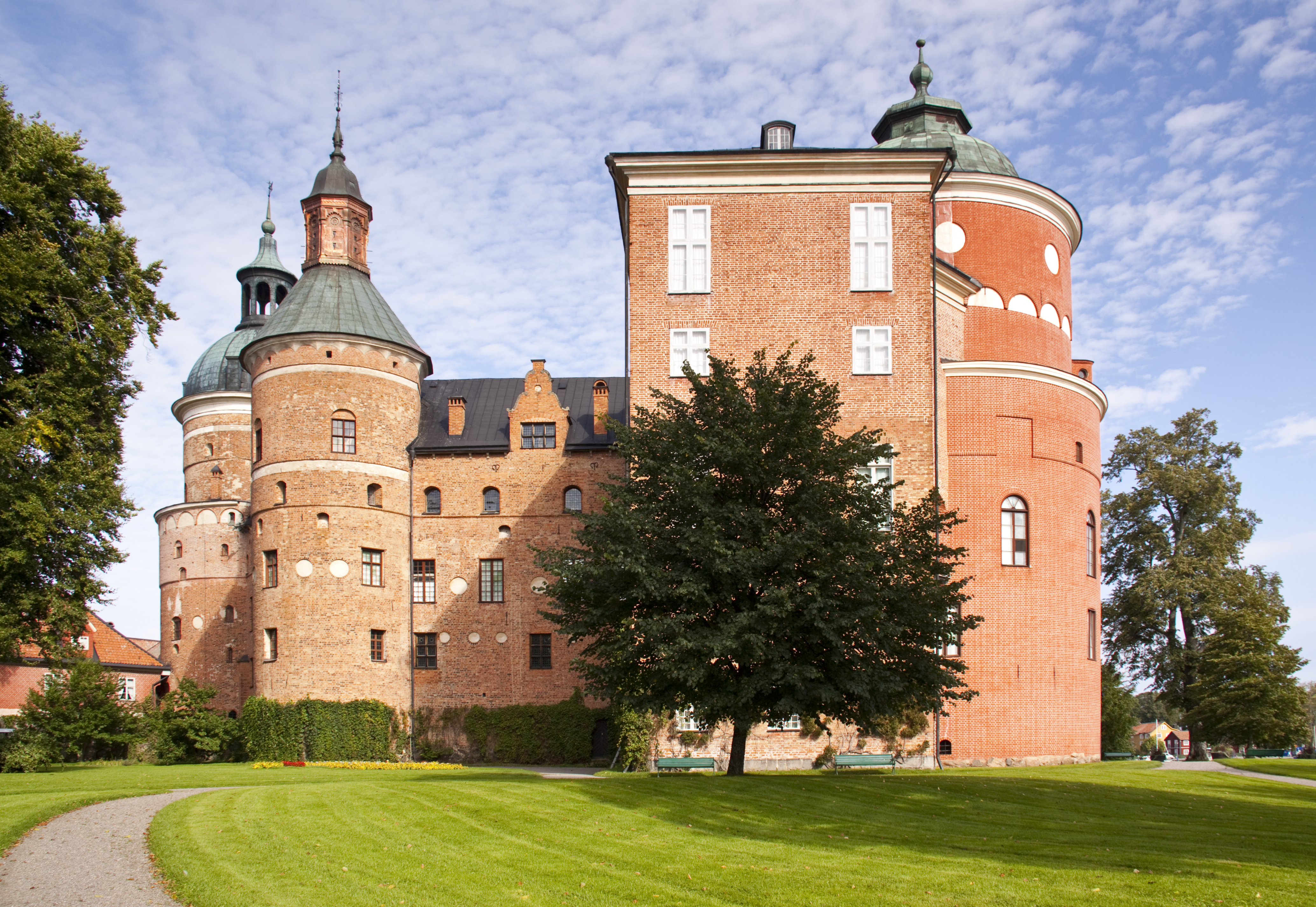 Gripsholm castle.